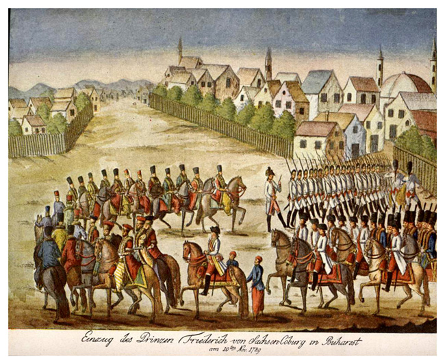 The troops of Prince Josias of Coburg in Bucharest, 1789